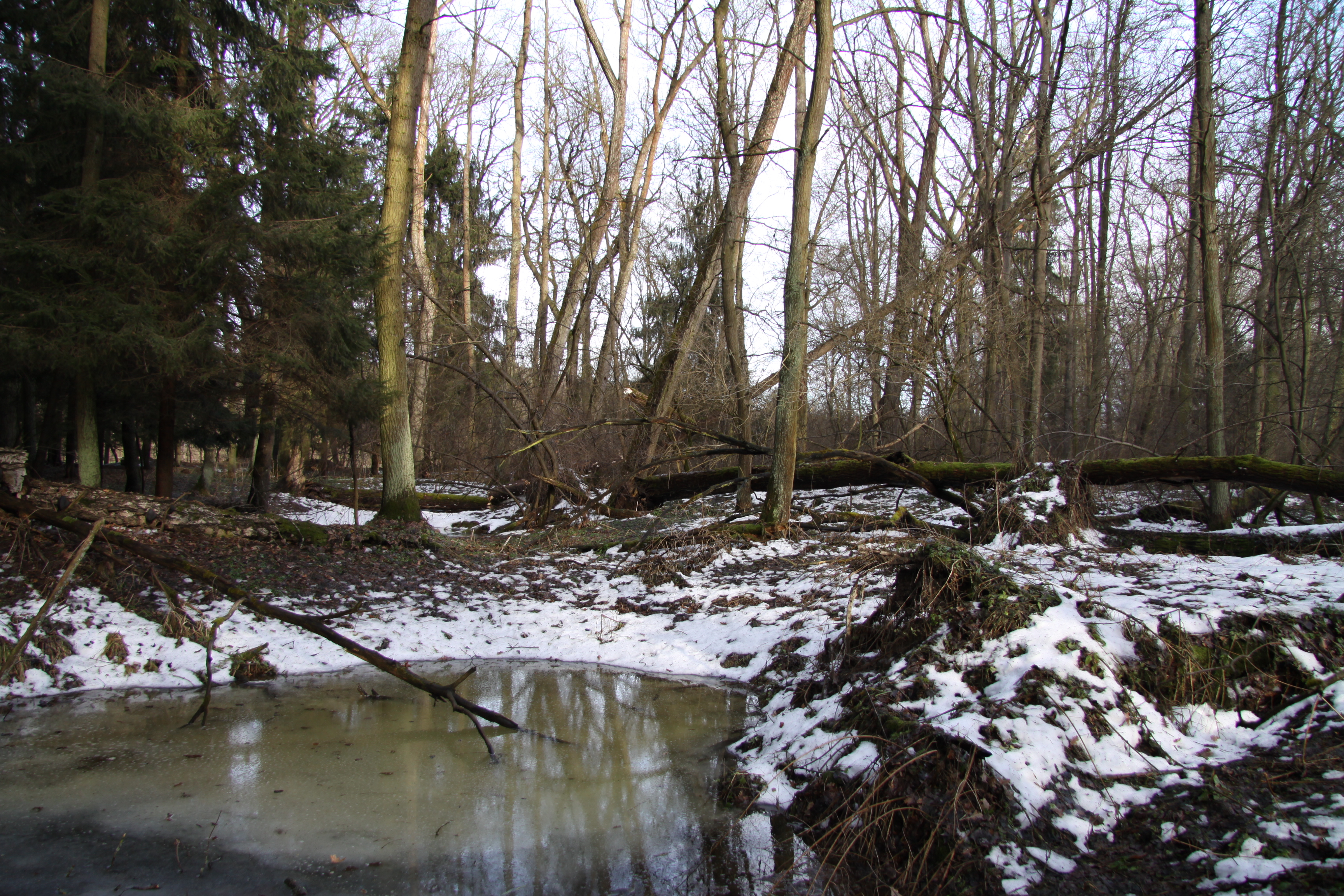 Nature reserve Bažantnice u Pracejovic near Strakonice, Strakonice District, Czech Republic